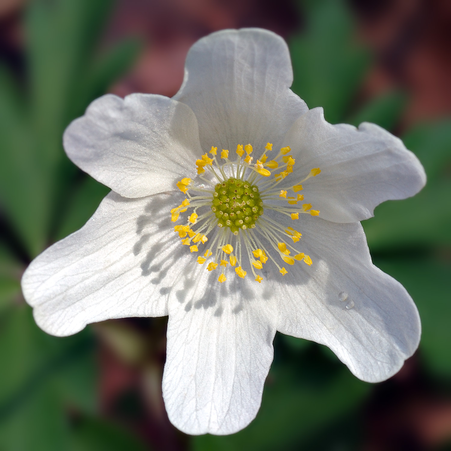 This image shows a windflower.